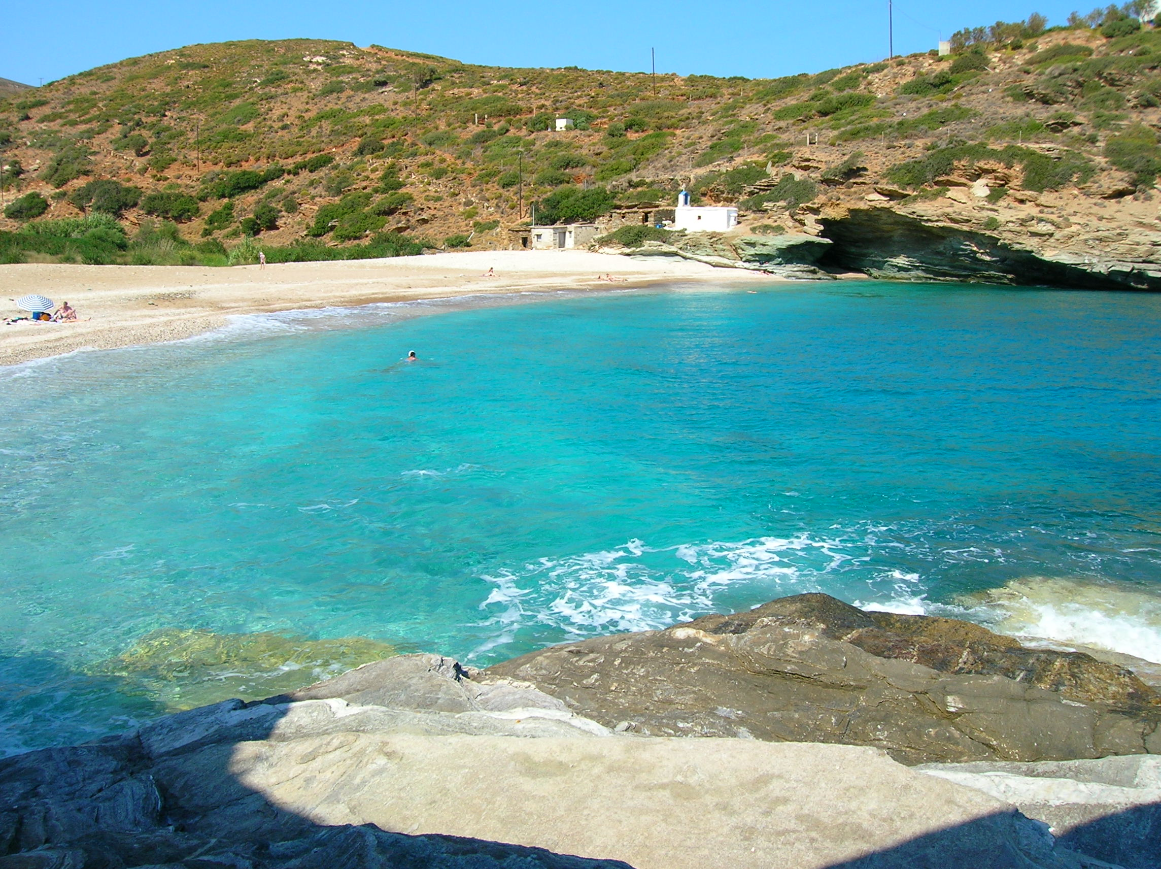 Picture taken by me in summer 2005 at Vitali beach, Andros, Greece.